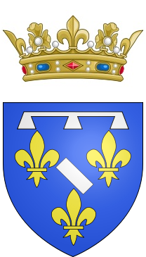 Coats of arms of the Dukes of Longueville